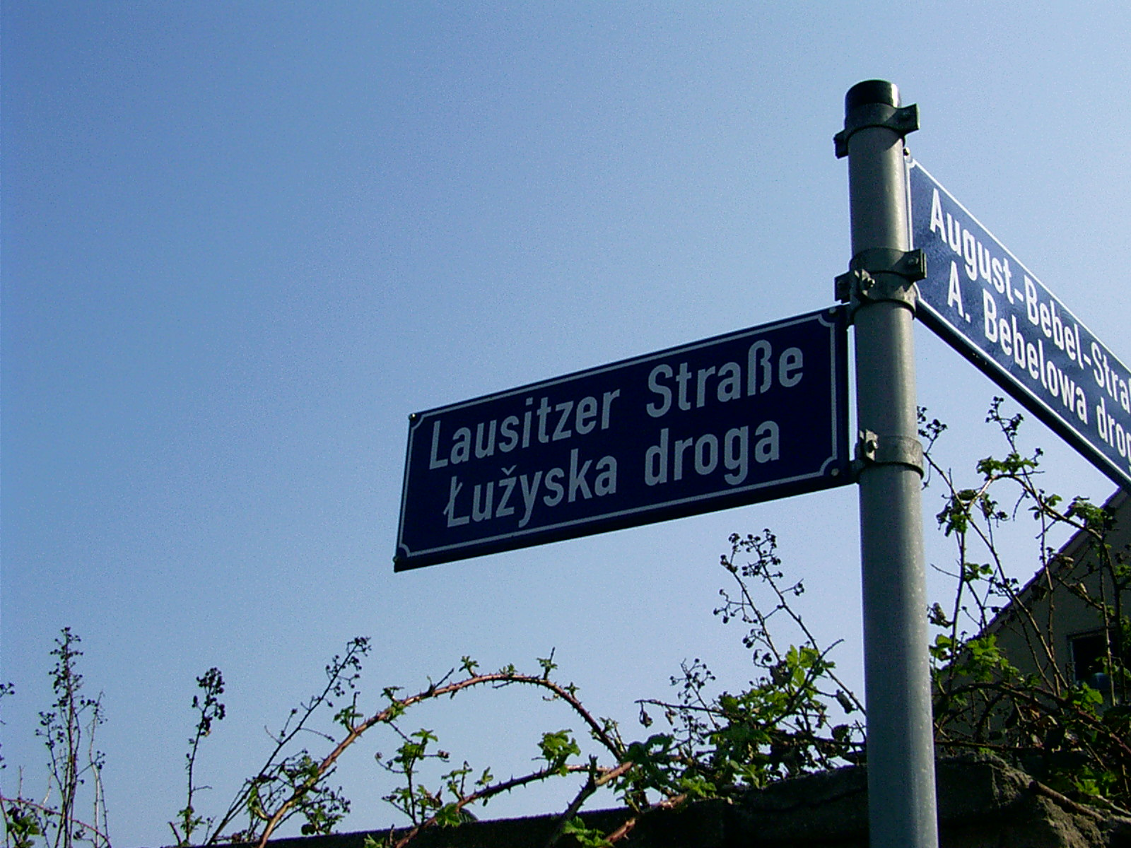 Bilingual, German-Sorbian street sign in the city Cottbus in Brandenburg, Germany.